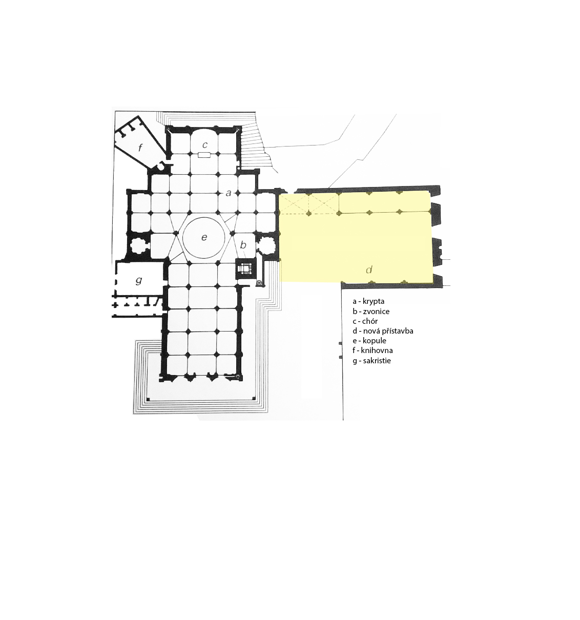 půdorys